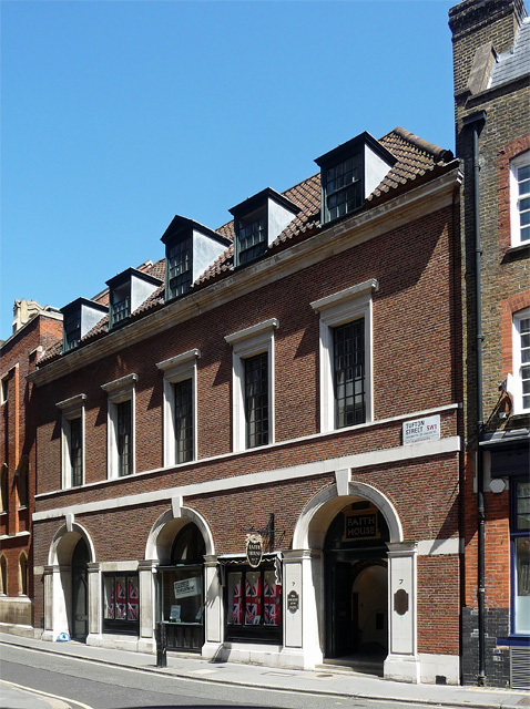 Faith House, Tufton Street. By Edwin Lutyens, 1905, built as the parish hall of St John. Grade II listed.